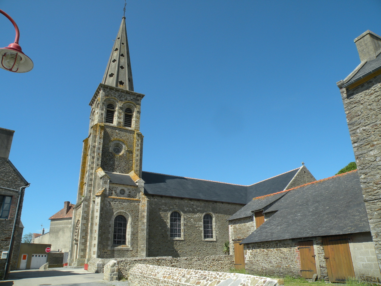 Church of Le Minihic-sur-Rance.